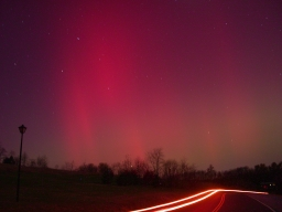 Image of aurora in Virginia during the big magnetic storm of November 2001